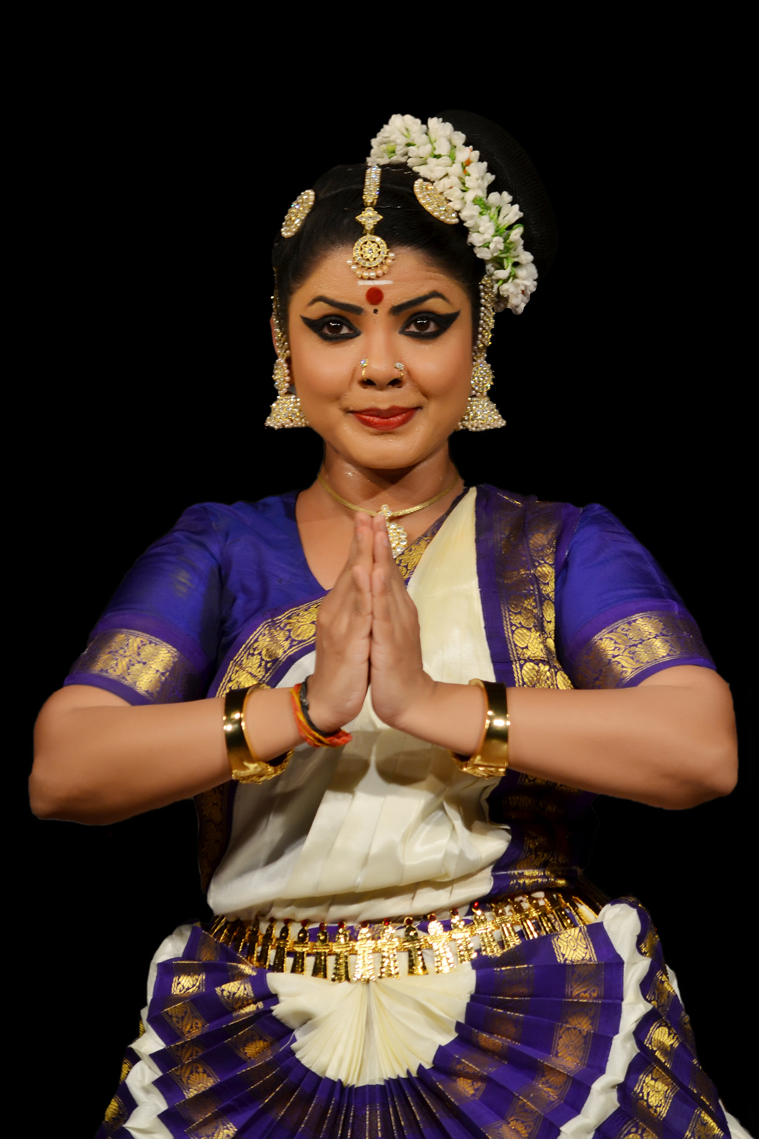 Rekha Raju performing Mohiniyattam